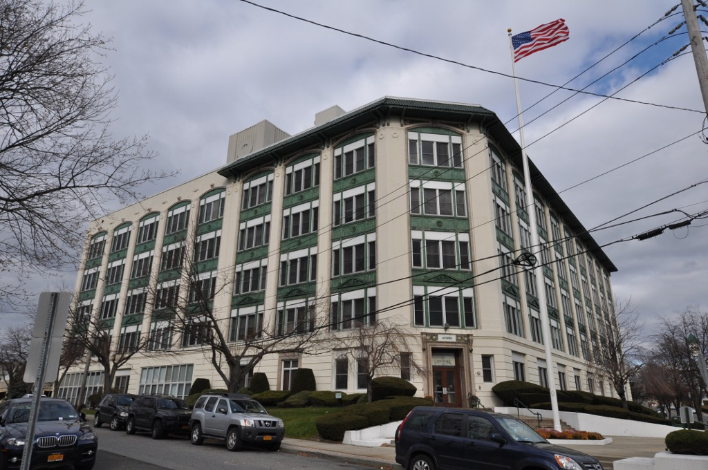 The former Life Savers Building (now The Landmark, a condominium development) in Port Chester, New York.